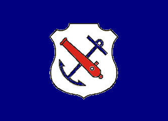 IX Corps, Army of the Potomac, 2nd Division Badge